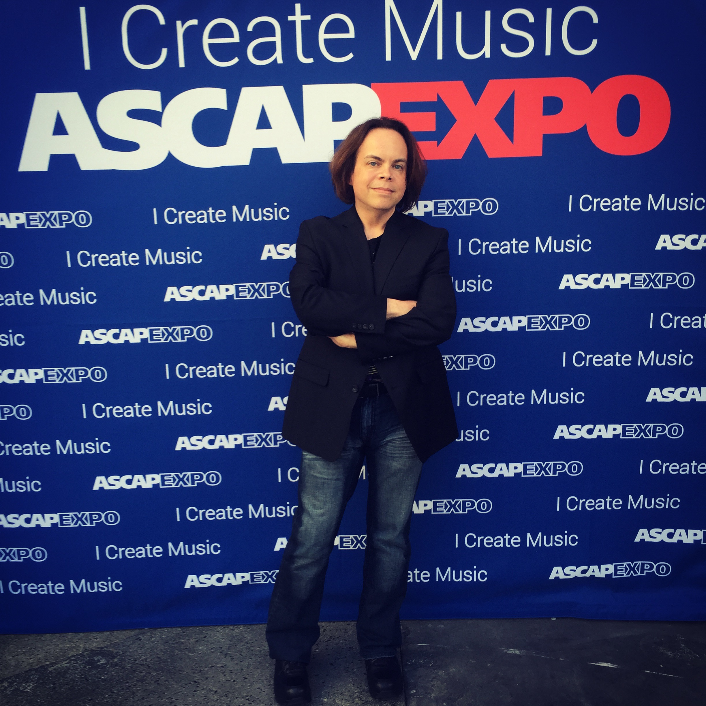 Michael Prendergast at the "I CREATE MUSIC ASCAP EXPO 2015".